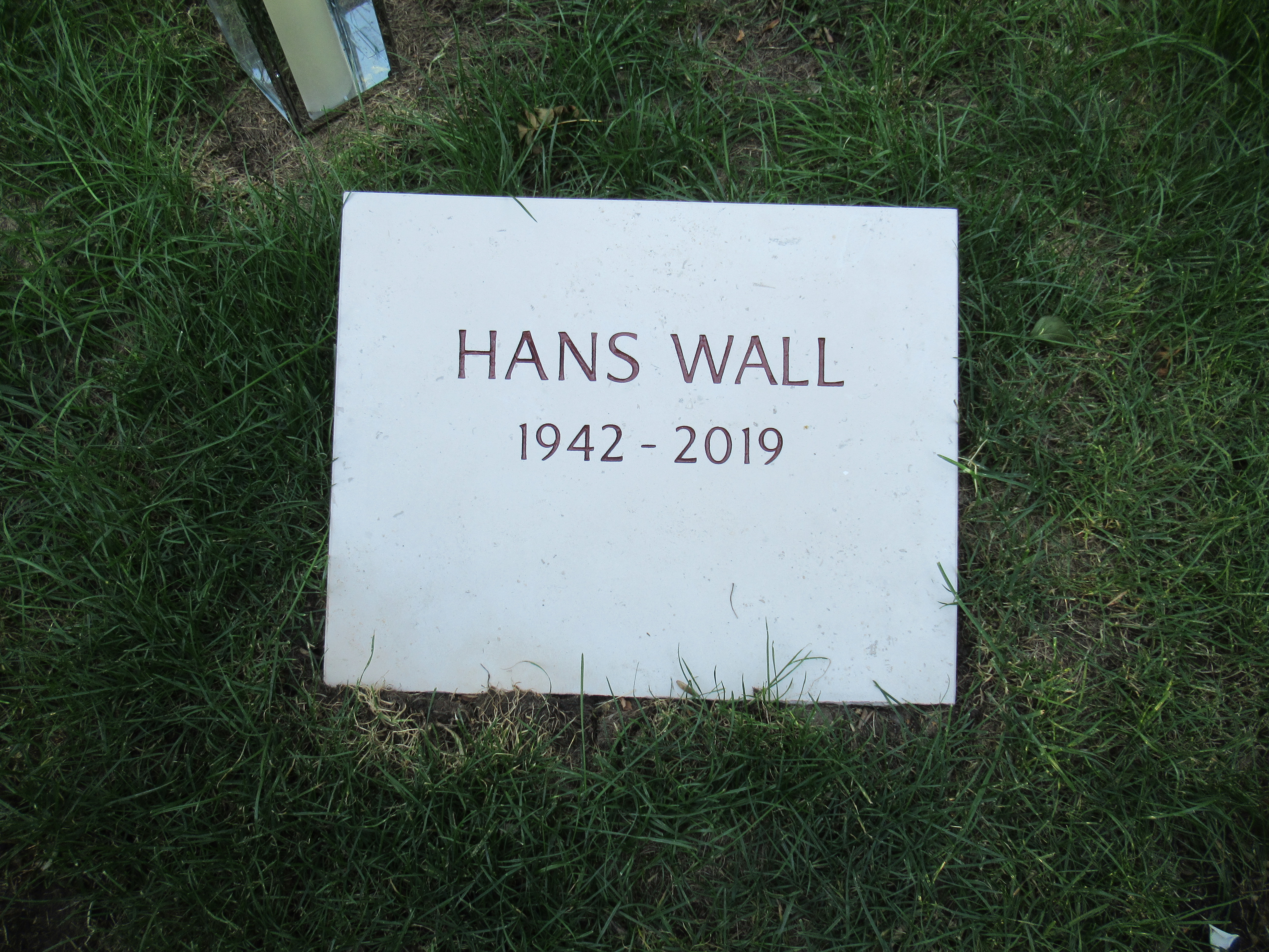 Grave of German entrepreneur Hans Wall at Dorotheenstadt cemetery in Berlin-Mitte, Germany.